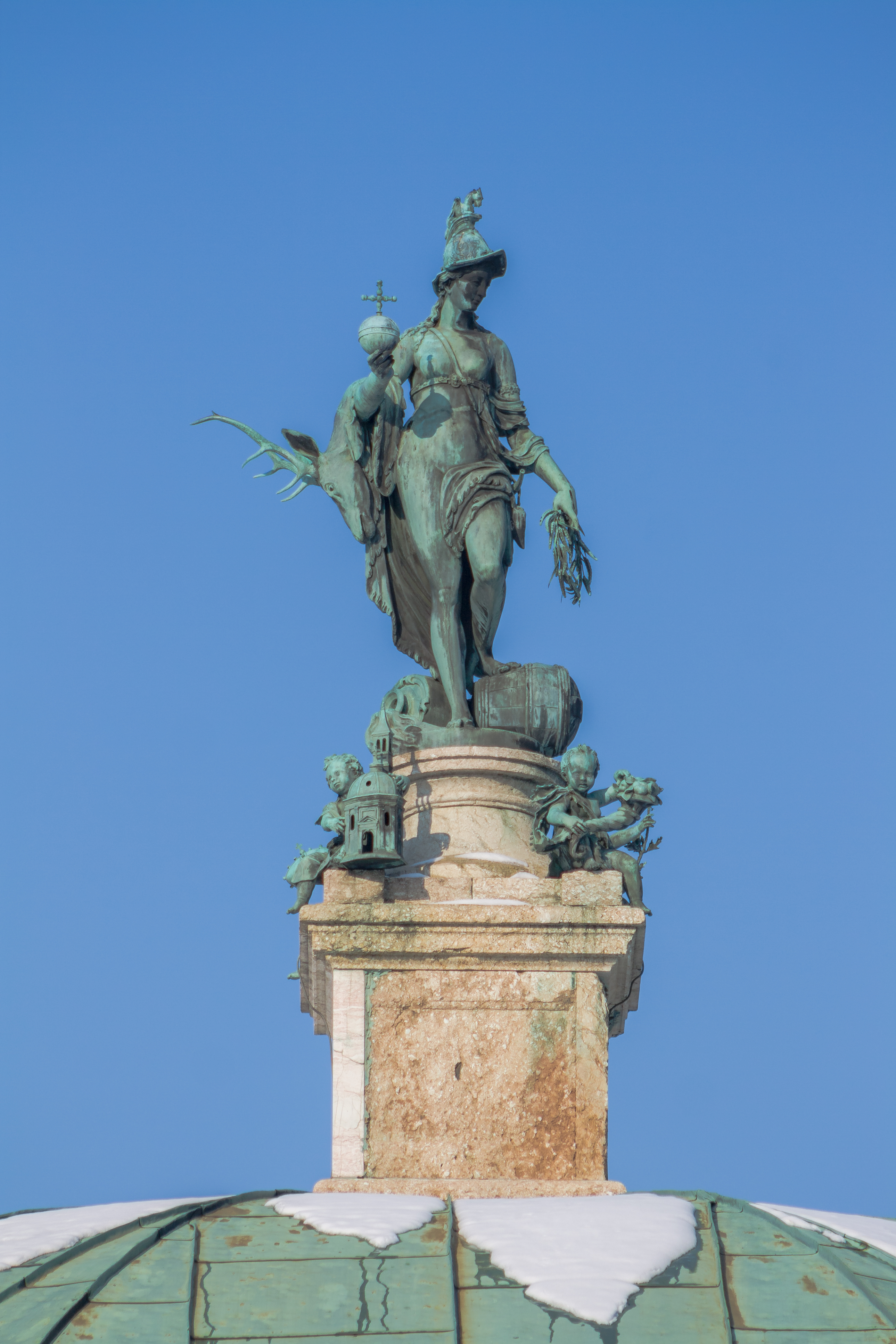 Diana temple, Munich, Germany